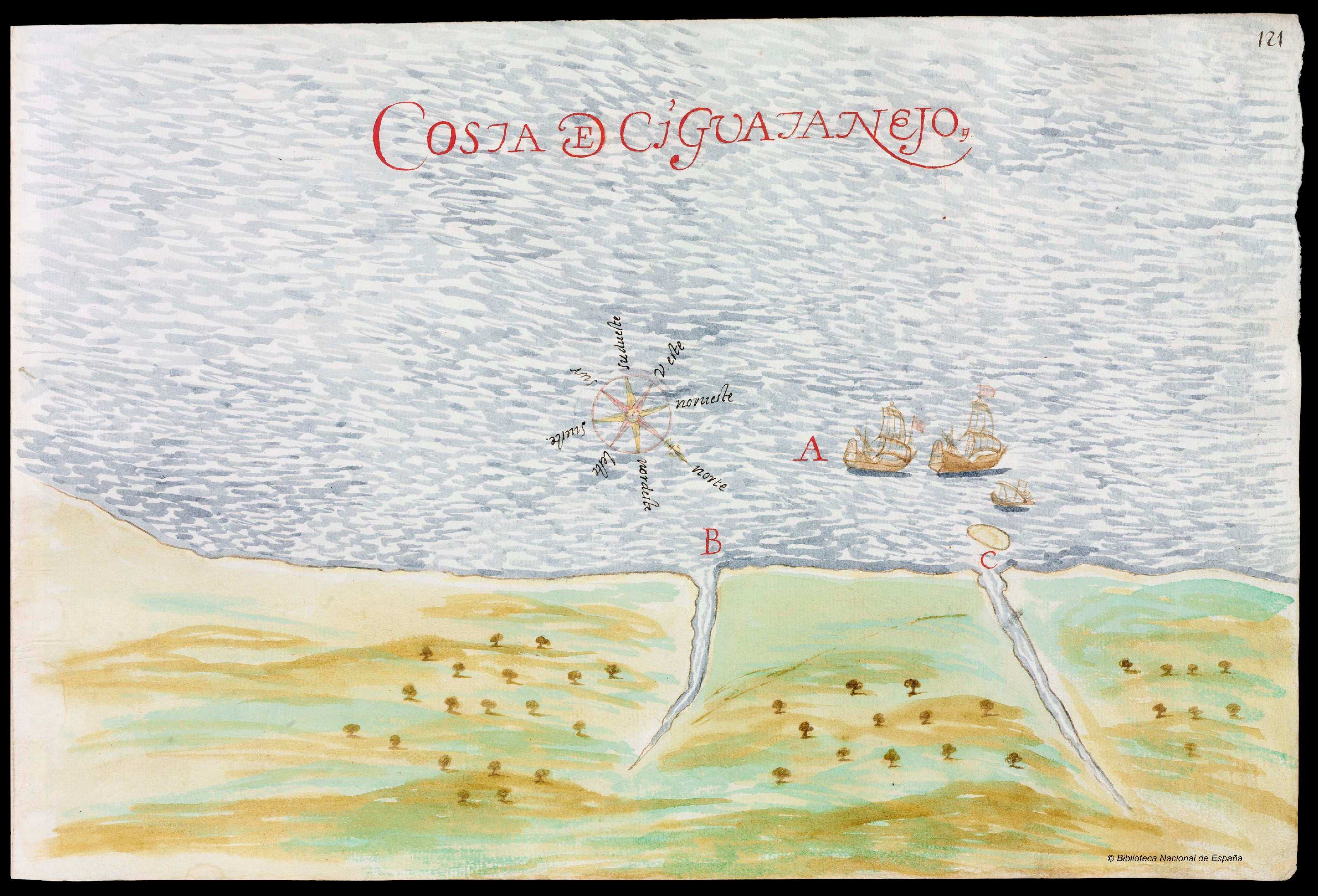 Page 121 of the Descripciones geográphicas e hydrográphicas de muchas tierras y mares del Norte y Sur en las Indias, en especial del descubrimiento del Reino de la California (Geographic and hydrographic descriptions of many northern and southern lands and seas in the Indies, specifically the discovery of the kingdom of California), written by captain Nicolás de Cardona after his expedition of 1614.